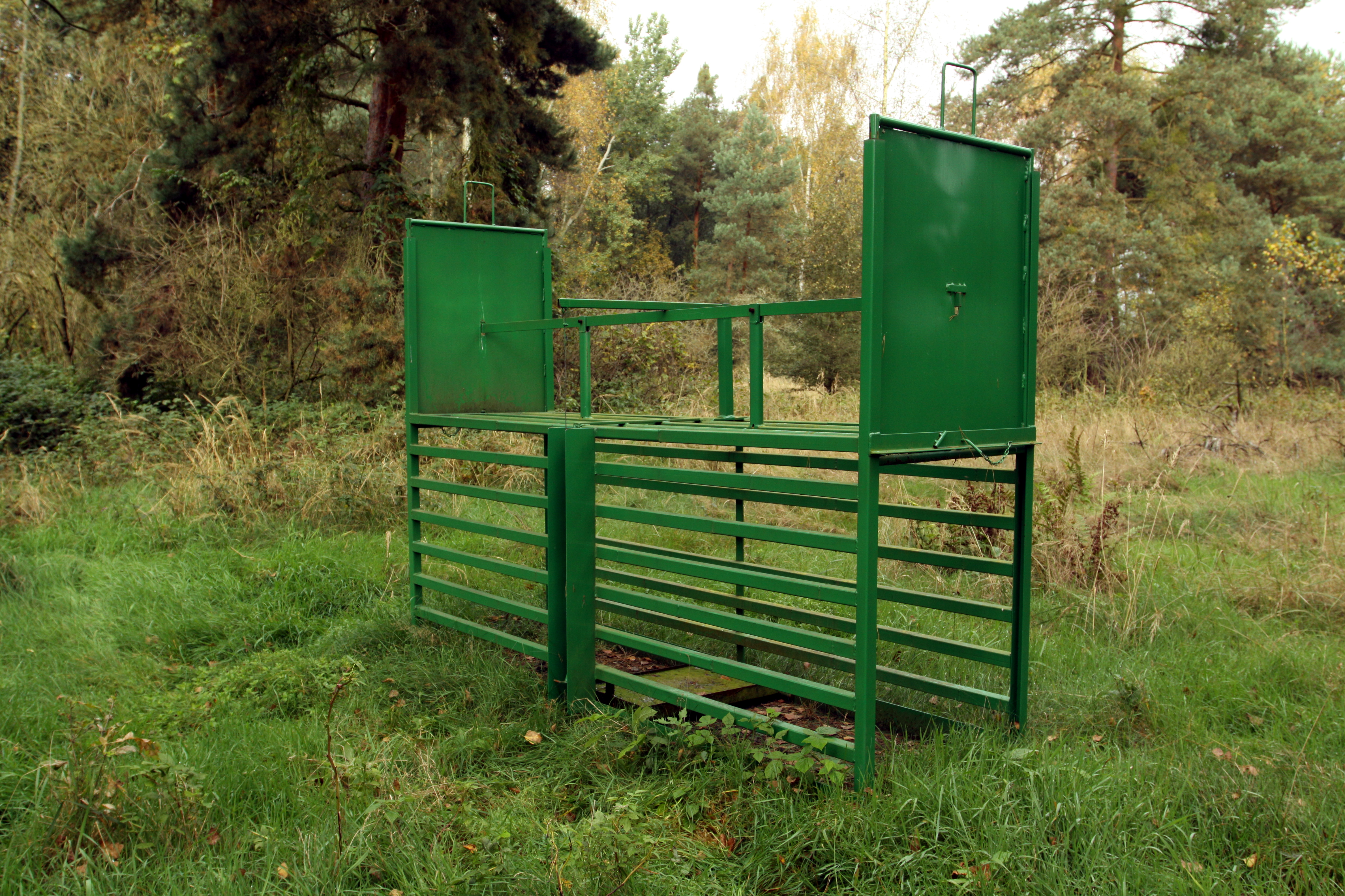 Natural monument Pamětník in Hradec Králové District, Czech Republic - Google Maps - Google Earth